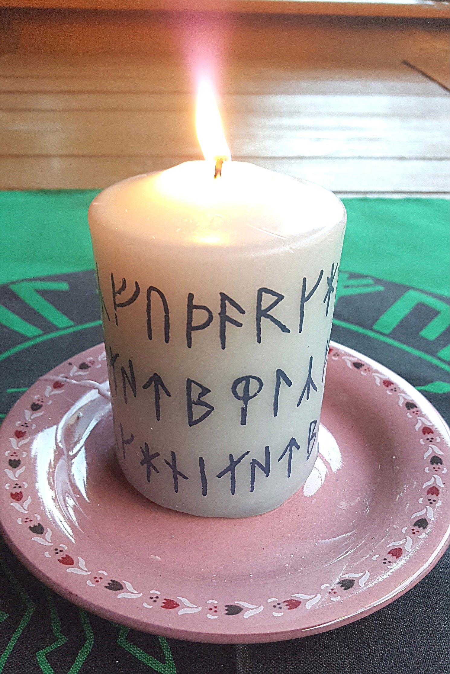 A candle with runes of the Younger Futhark on a saucer.